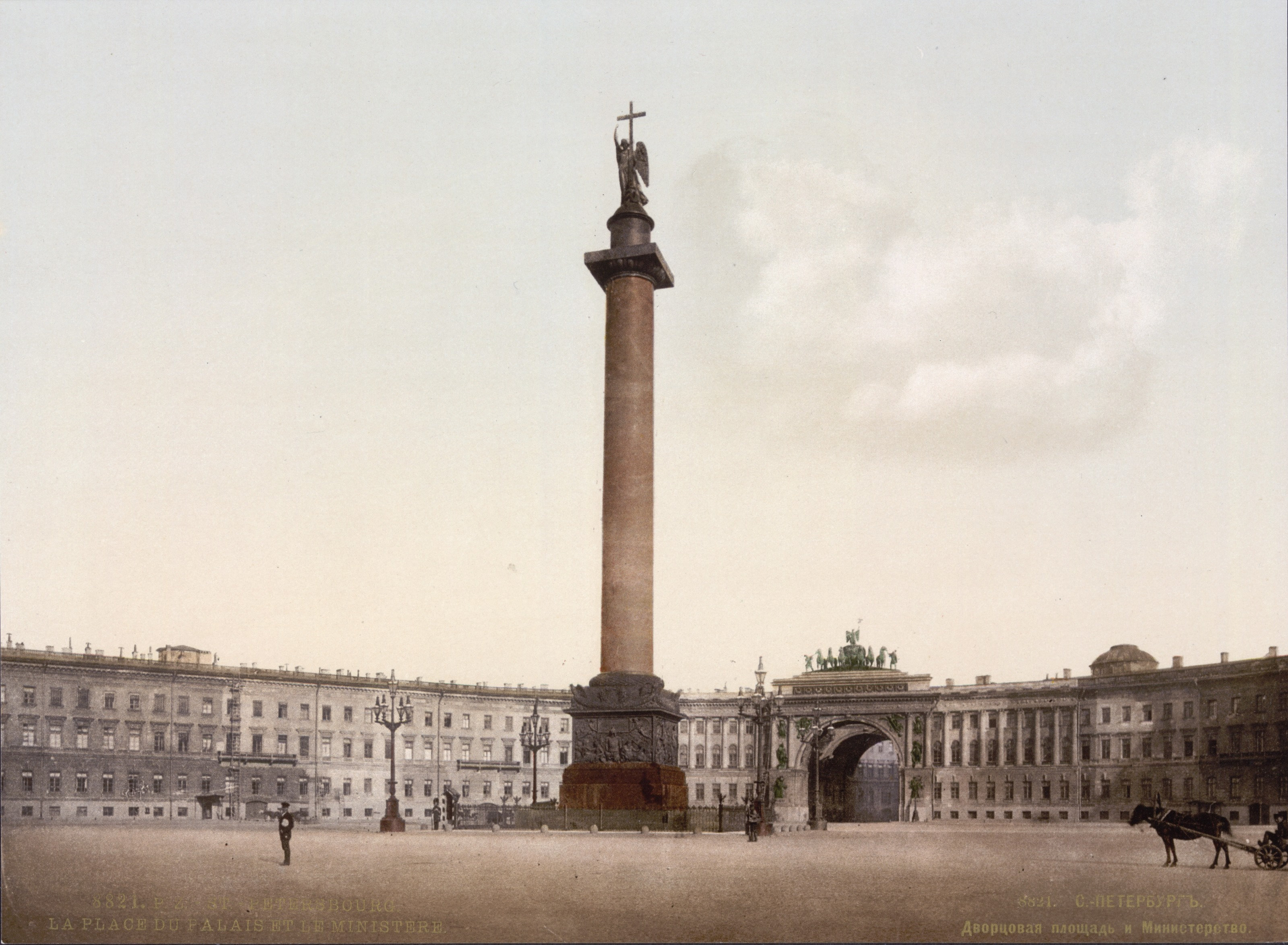 The Alexander's column and Building of General Stuff on Palace square in St Petersburg (Russia). 19th-century photochrome print (1890—1900)